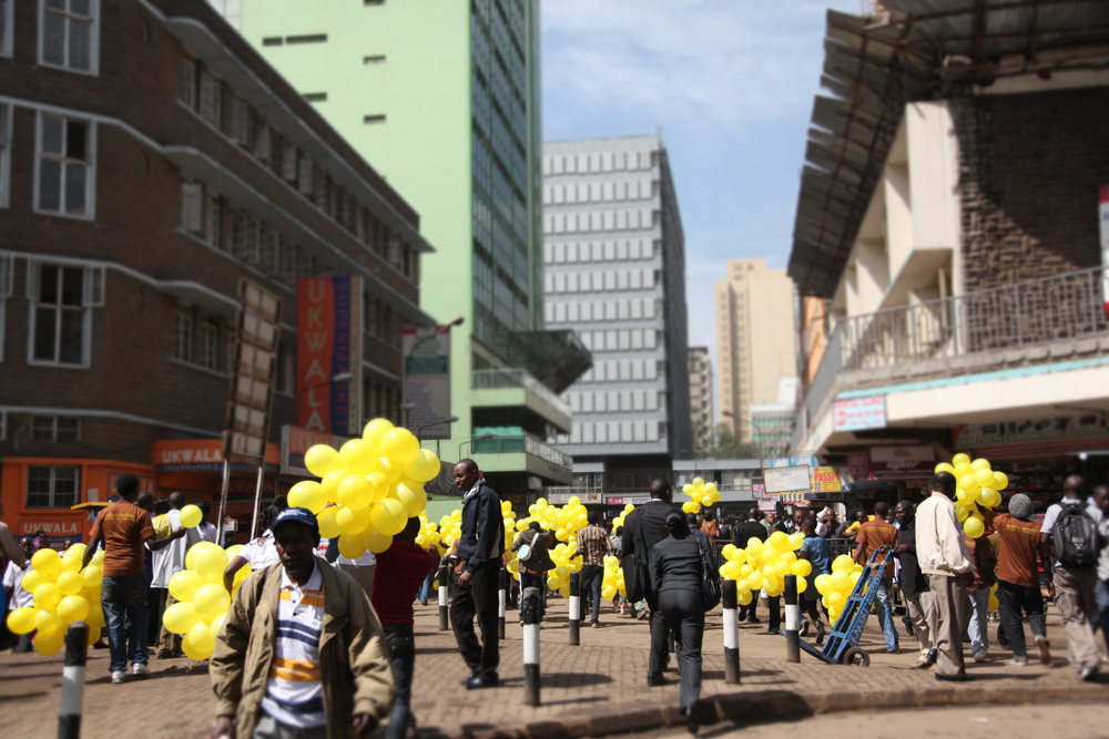 Colombian-American artist Yazmany Arboleda does social sculpture entitled "Monday Morning" in Nairobi on November 7, 2011.